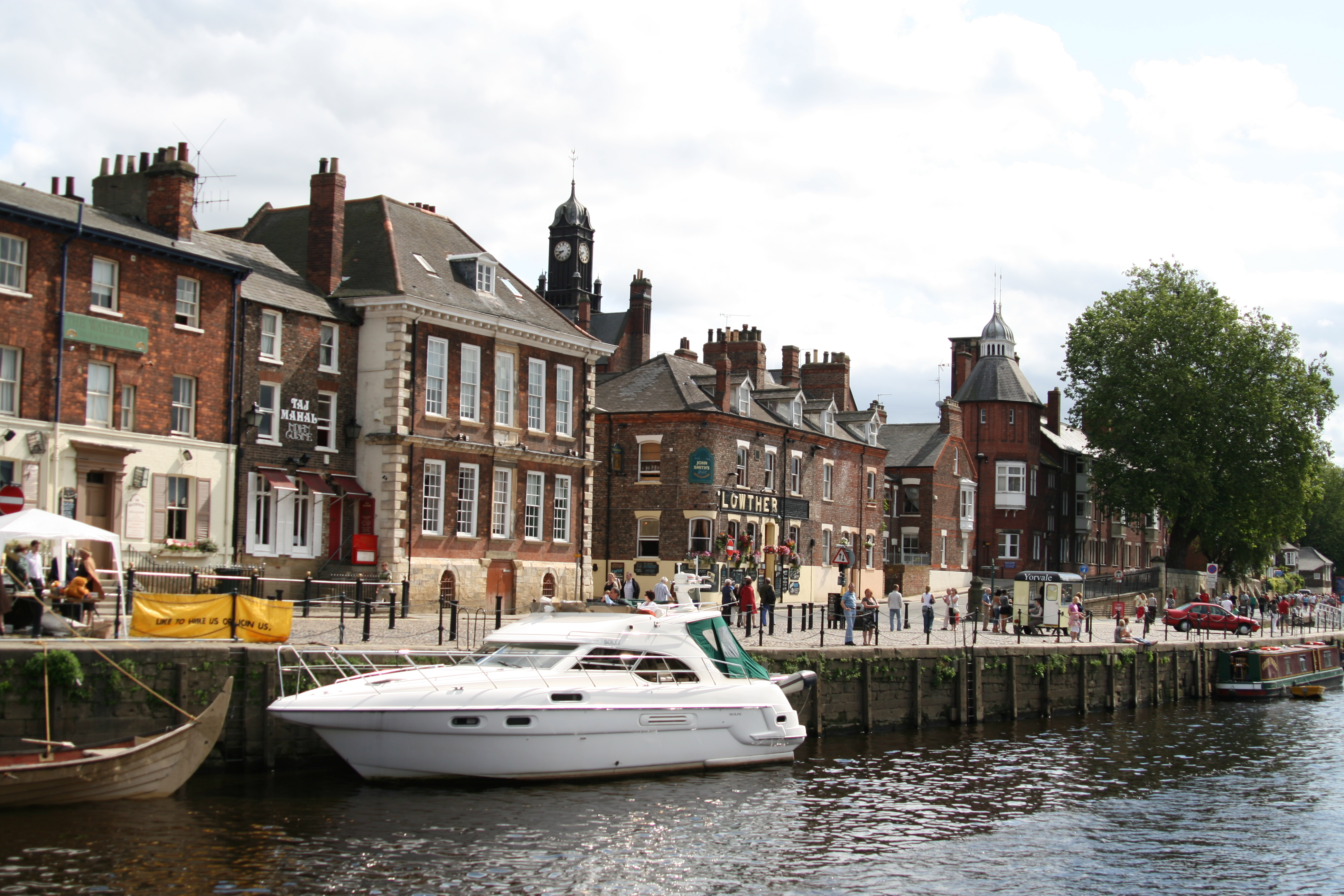 In and around York